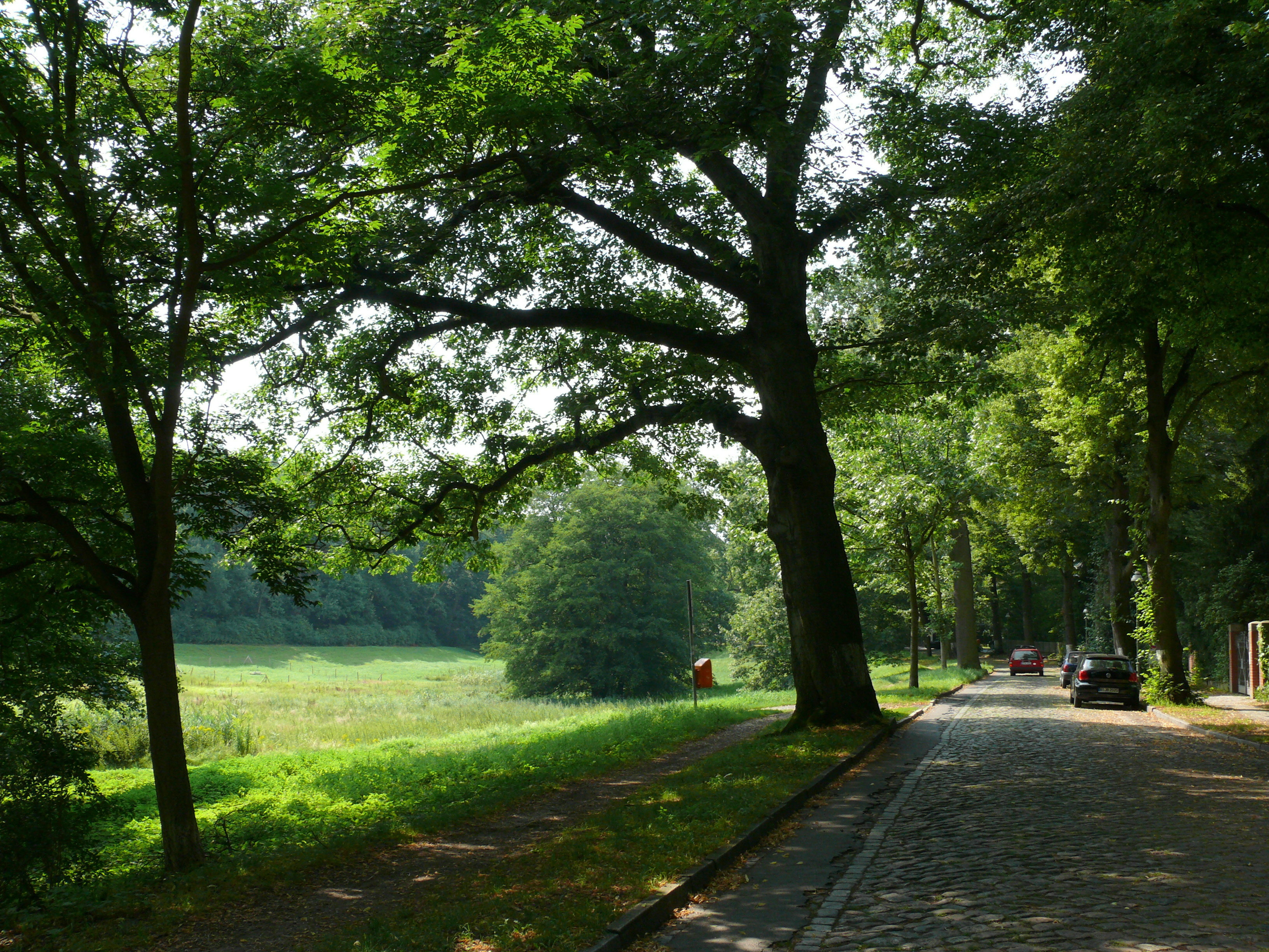 Berlin-Nikolassee An der Rehwiese